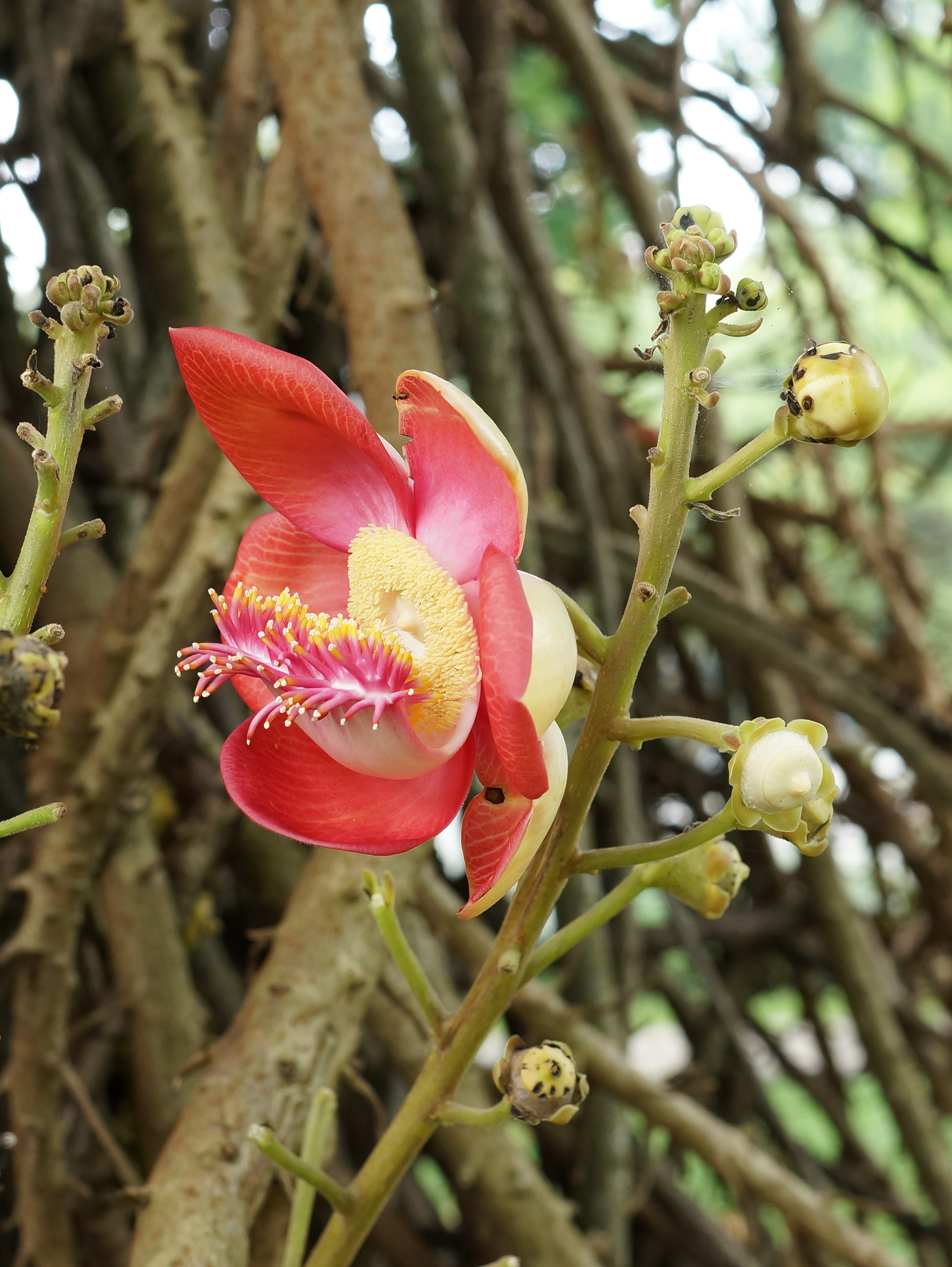 Cannonball tree